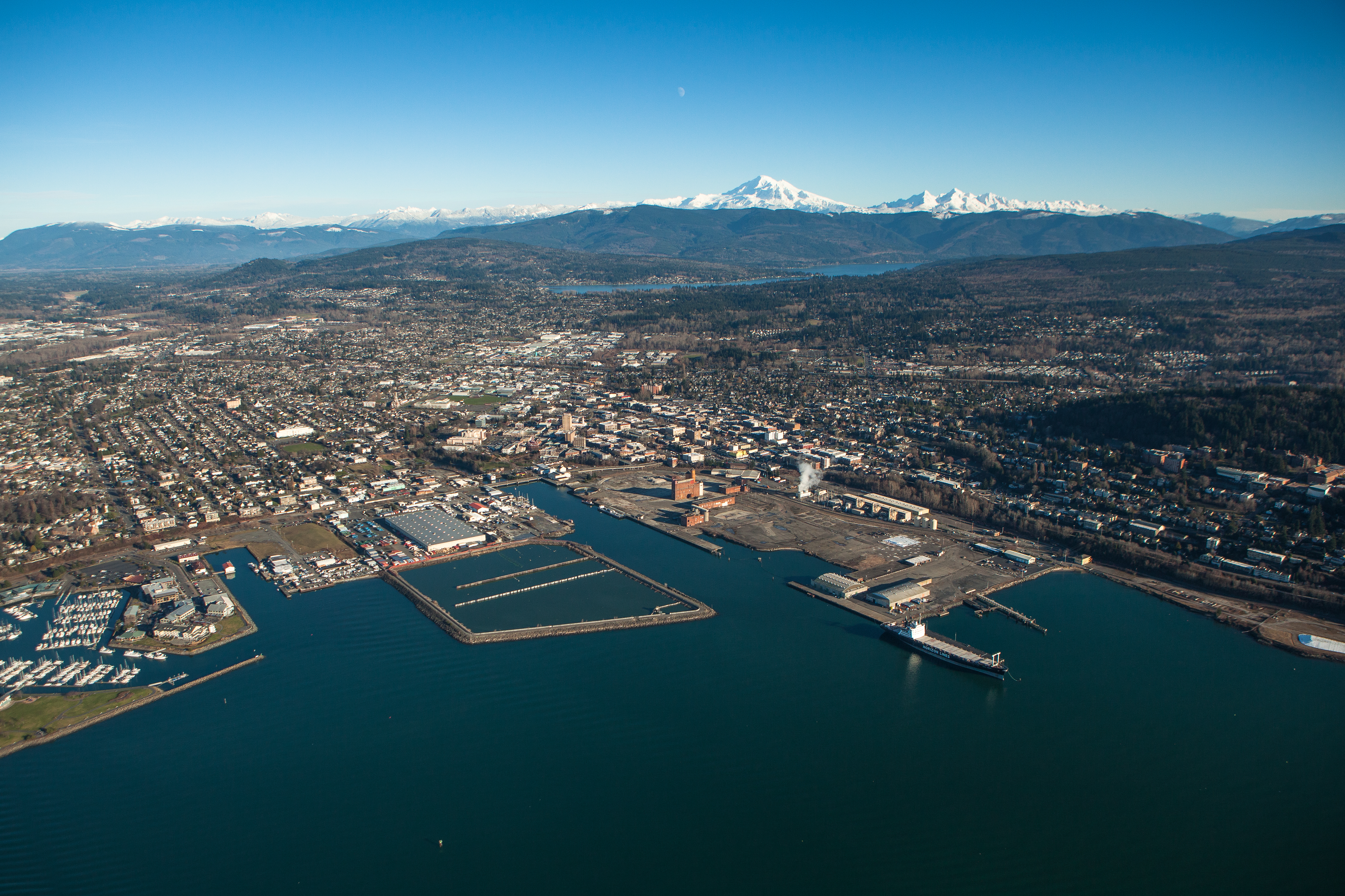 Aerial View of Bellingham, Washington including the waterfront redevelopment, downtown, and Mount Baker in the distance.